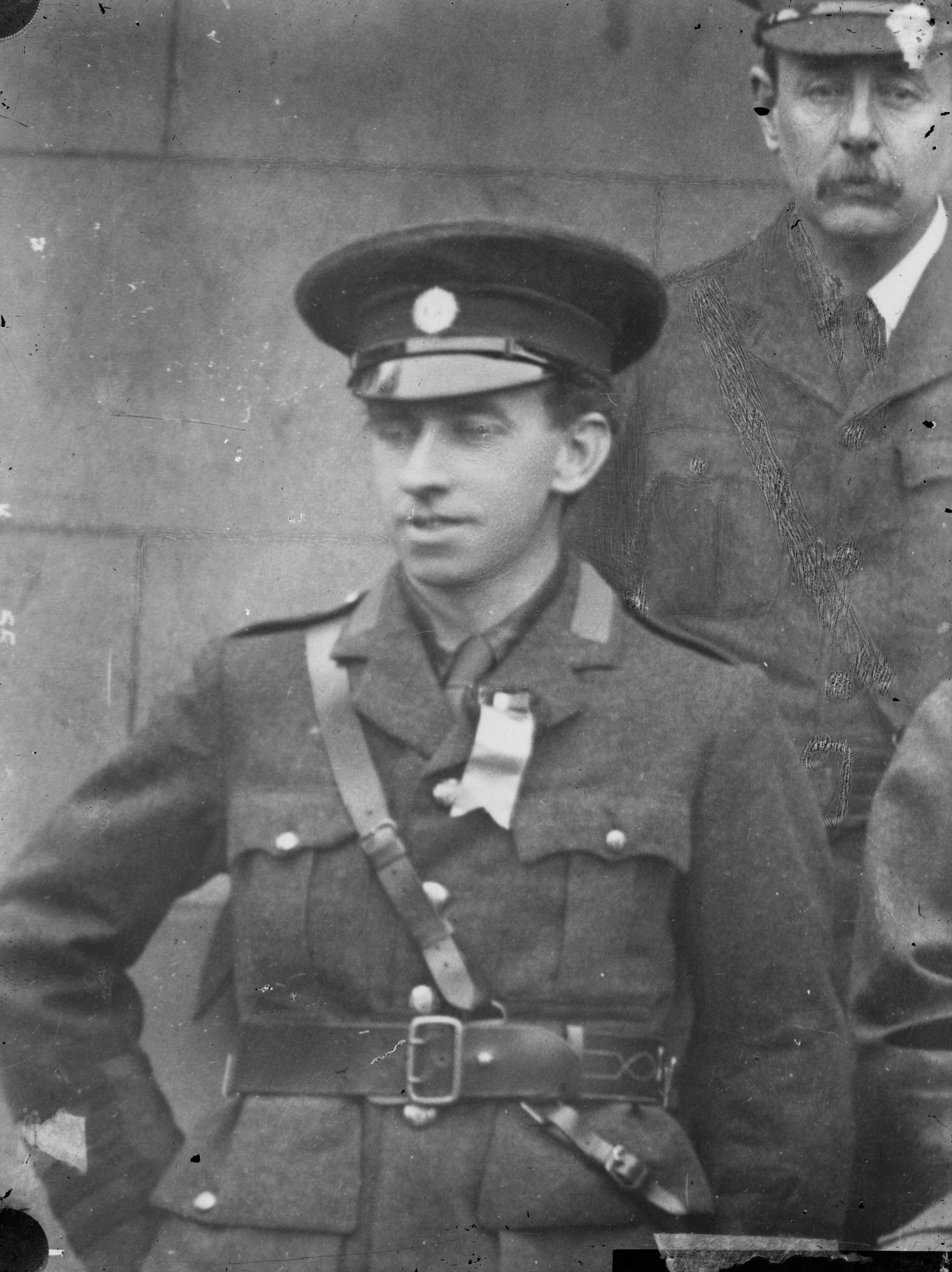 In this the anniversary of the 1916 Rising here is one of the leaders who was executed in Kilmainham Gaol. While we confessed to knowing very little about McDonagh personally, [/photos/129555378@N07/ sharon.corbet],[/photos/gnmcauley/ Niall McAuley] and [/photos/47297387@N03/ Carol Maddock] pointed us to a trove of information on the poet, activist and revolutionary - who would be executed within a year of this image. A special thanks to [/photos/91549360@N03/ O Mac] whose eagle-eyes and memory confirmed that this image is an extract/crop of another Keogh shot - of the funeral committee that McDonagh had a significant role in. This confirmation allows us to refine the date and map the image.... Photographer: Brendan Keogh Collection: Keogh Photographic Collection Date: between 29 June 29 and 1 August 1915 NLI Ref: KE 55 You can also view this image, and many thousands of others, on the NLI’s catalogue at